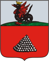 Yadrin (Chuvashia), coat of arms (1781)